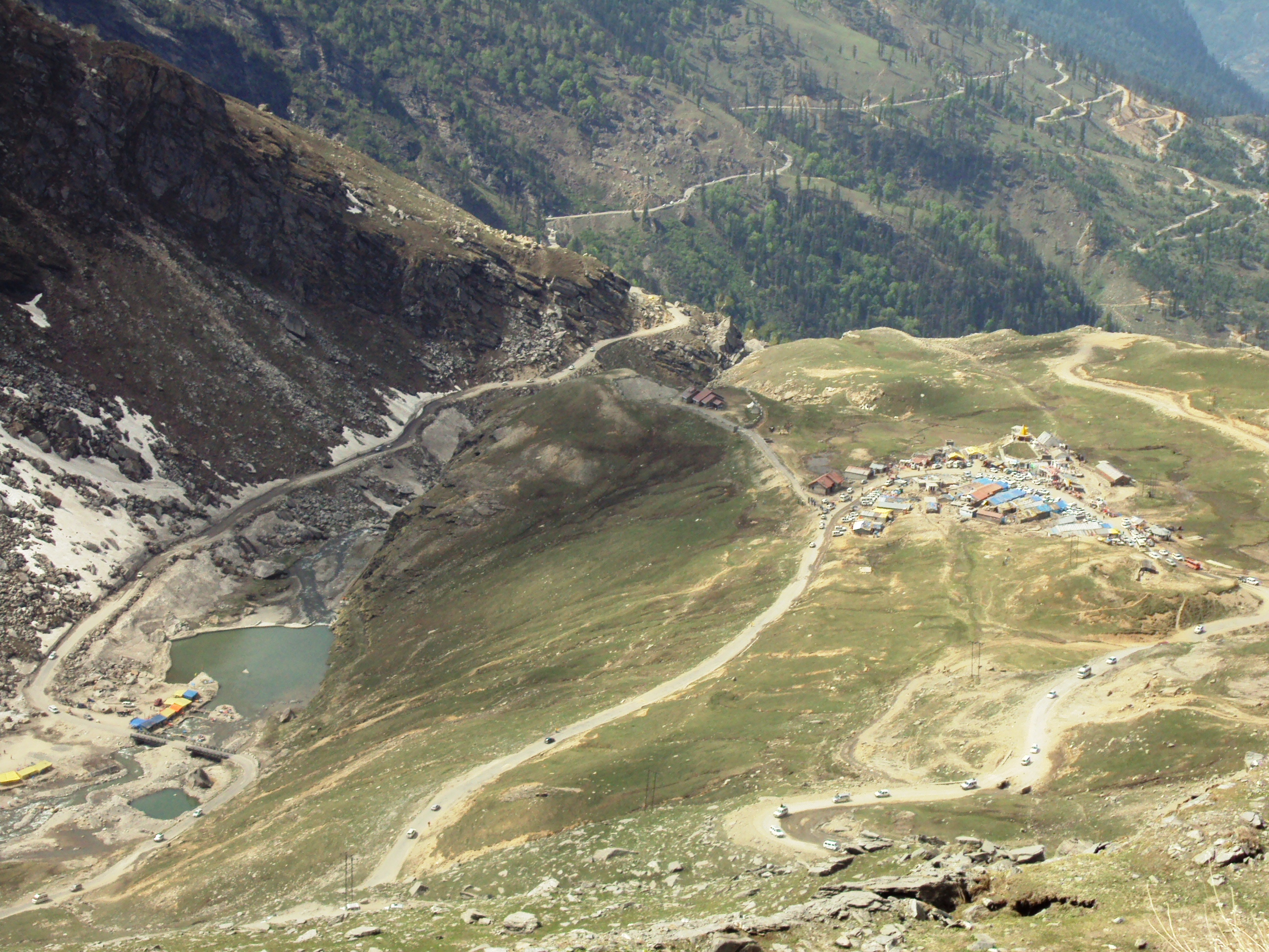 A view of dhabas at Marhi on the Leh-Manali Highway between Manali and the Rohtang Pass on 24 May,2009.